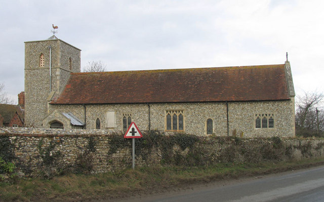 Church of St Giles, Houghton St Giles, Norfolk